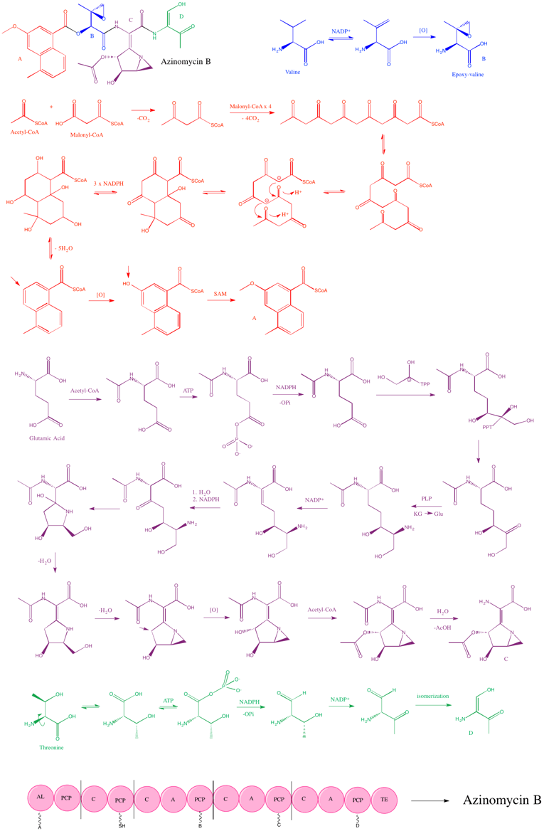 Biosynthesis pathway of Azinomycin B